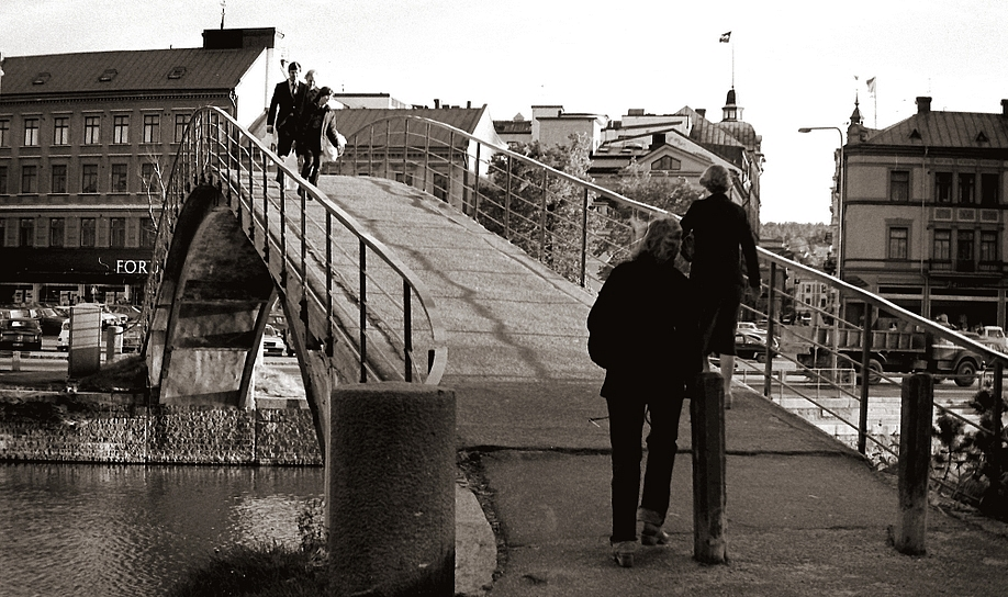 Från Norrmalm, Selångeråns norra sida.